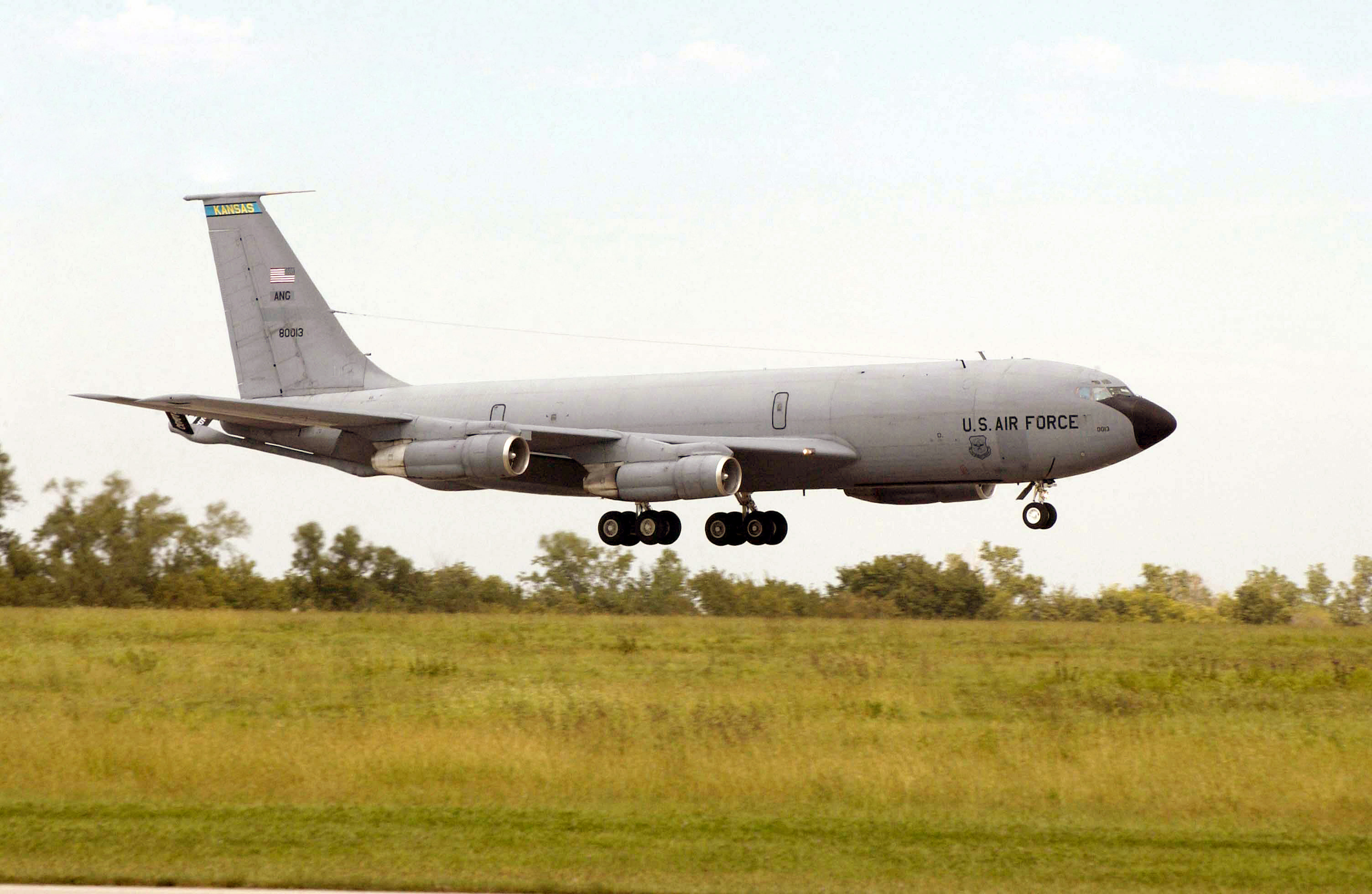 The U.S. Air Force Boeing KC-135E Stratotanker (s/n 58-0013), assigned to the 117th Air Refueling Squadron, 190th Air Refueling Wing, lands following its final mission at the Forbes Field, Kansas on 11 September 2004. During Operation "Desert Storm" in 1991 the aircraft known as "Balls 13" was flying a mission over Jeddah, Saudi Arabia, and lost both engines on one wing. The crew managed to land the plane without crashing.